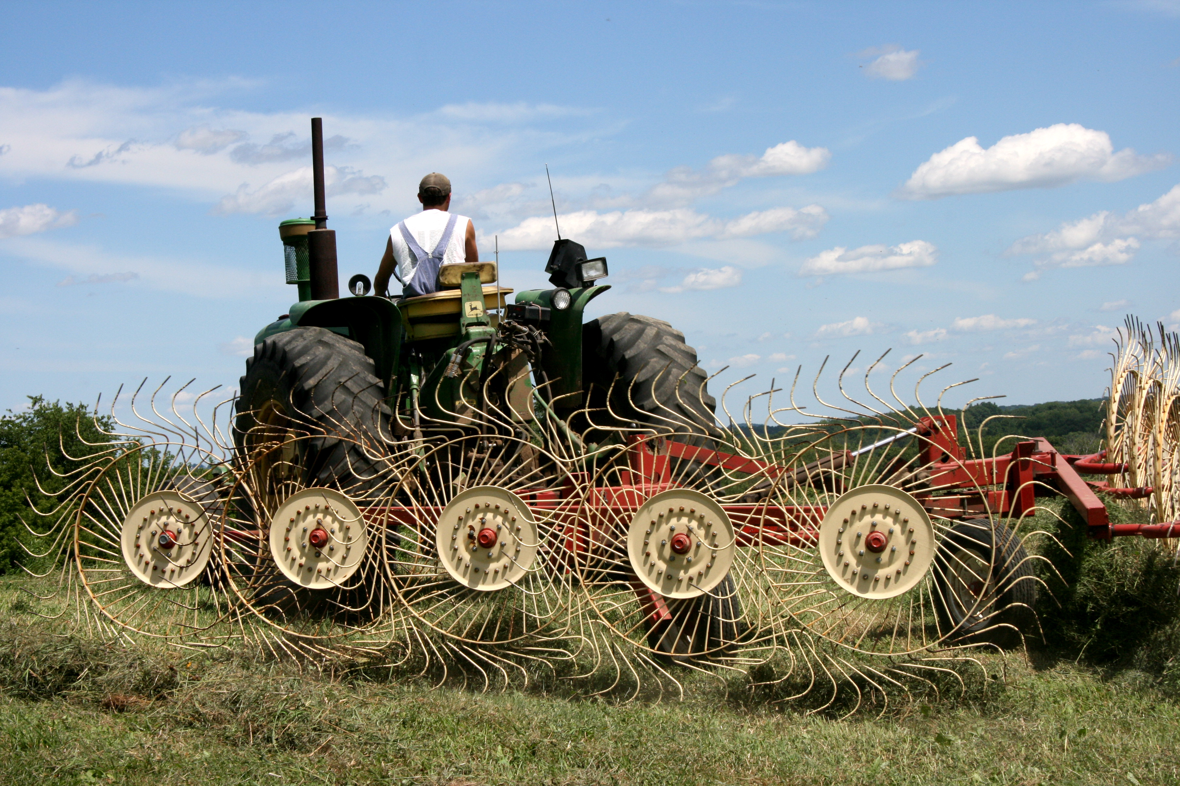 John Deere 4020 Diesel with a star-wheel hay rake at Attleson Farm, Wisconsin, USA